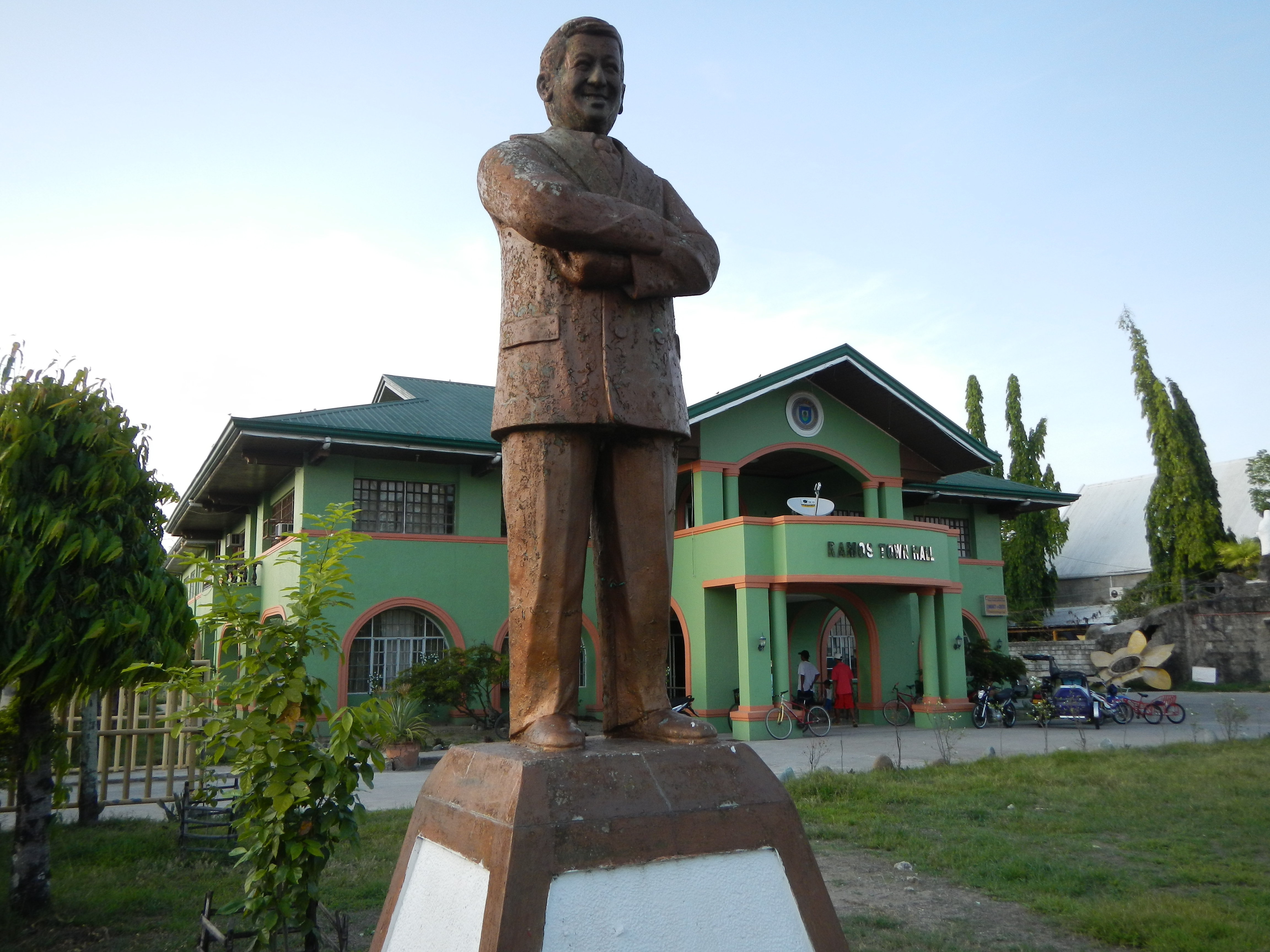 Ramos, Tarlac[1] is a fifth class municipality in the province of Tarlac, Philippines. According to the 2010 census, it has a population of 20,249 people. Ramos is politically subdivided into 9 barangays.[2] This place is situated in Tarlac, Region 3, Philippines, its geographical coordinates are 15° 39' 53" North, 120° 38' 26" East and its original name (with diacritics) is Ramos.[3] Land Area: 24.40 km² ZIP Code: 2311 [4] Coordinates: 15°40'49"N 120°37'48"E[5]During the Spanish occupation, when the town of Paniqui was still a part of the Province of Pangasinan, many people from the town Bayambang, Malasiqui and San Carlos came to this town to live and work. This migrant workers discovered a vast virgin area which was covered with thick forest, cogon grass, “talahib” and medicinal plants “Bani”. There were two distinct names of these plants, “BANI-TAO and BANI-NUANG” which were found abundantly along the banks of Inerangan Creek. Read More on its history:[6] .[7] Elected Officials[8]